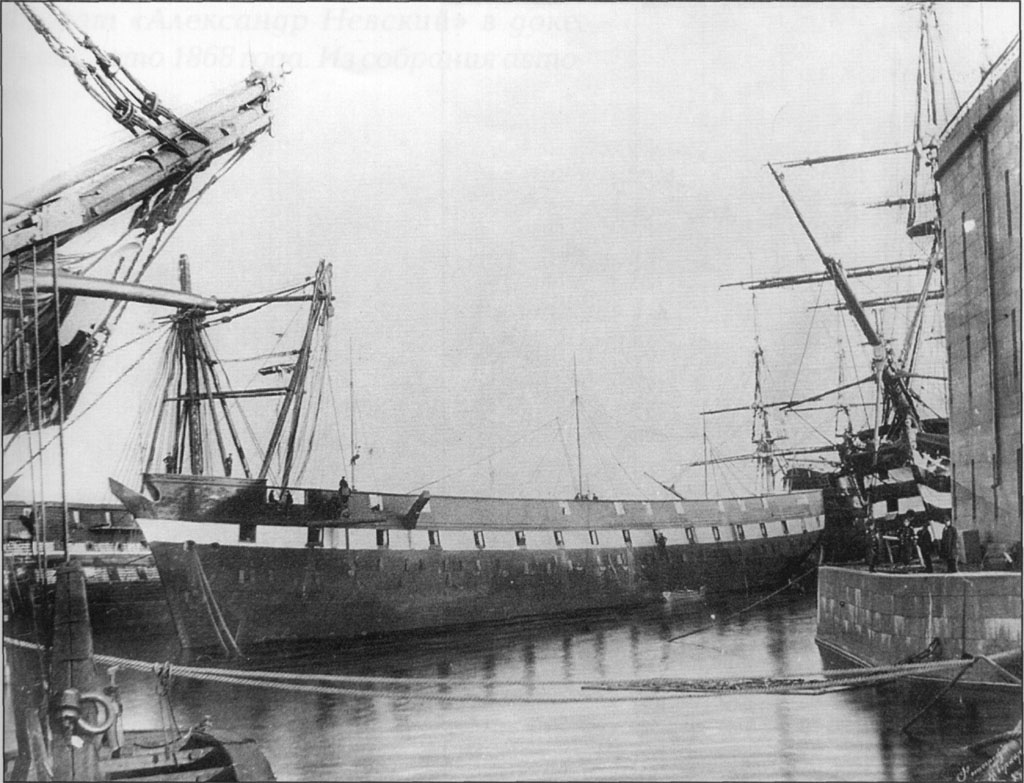 Imperial Russian frigate Dmitriy Donskoy.